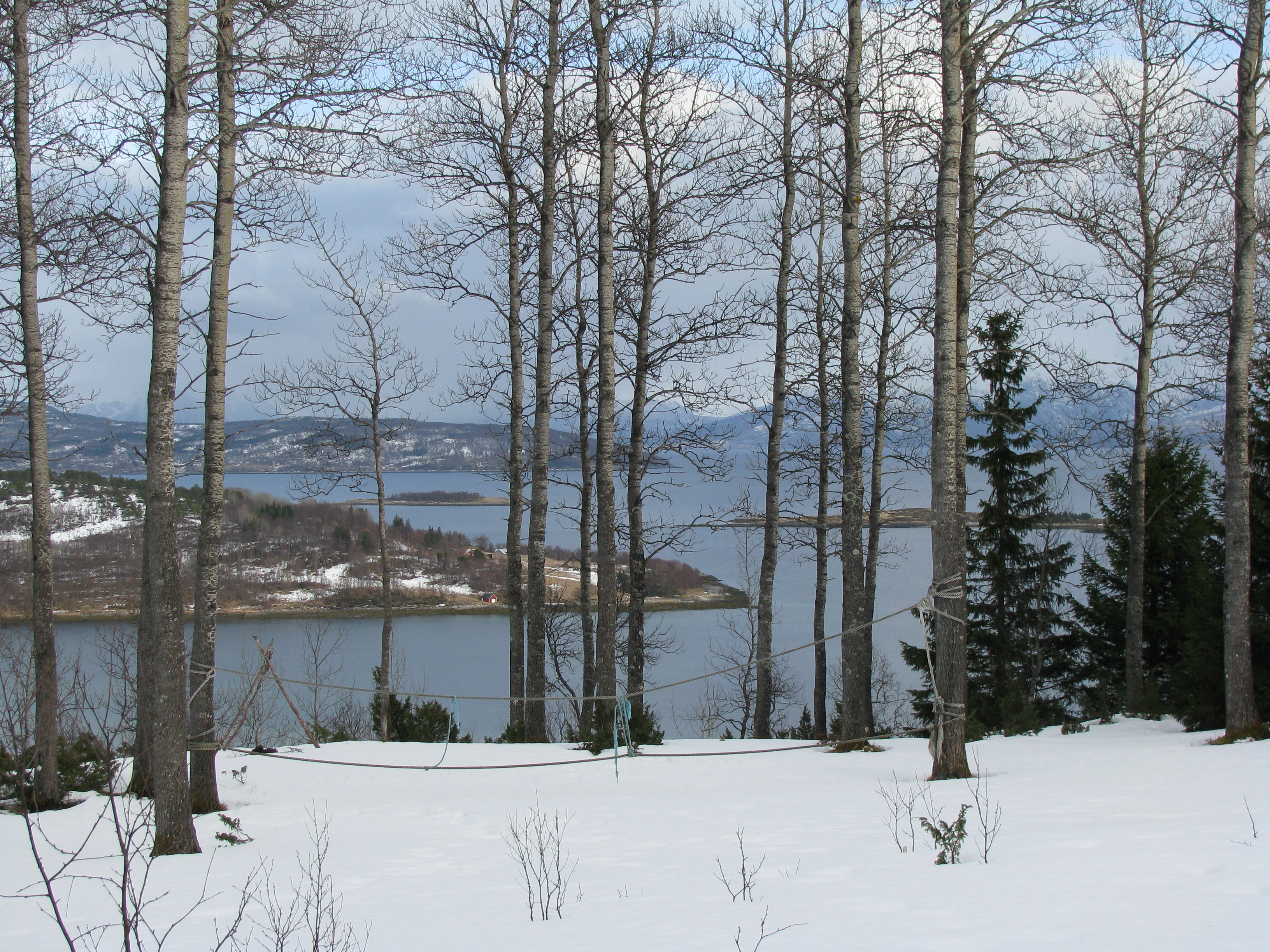 View from the hills near Liland, Evenes, towards Ofotfjord, 250 km north of the Arctic Circle. Someone has tied ropes to the aspen trees (Populus tremula). April 19 2008